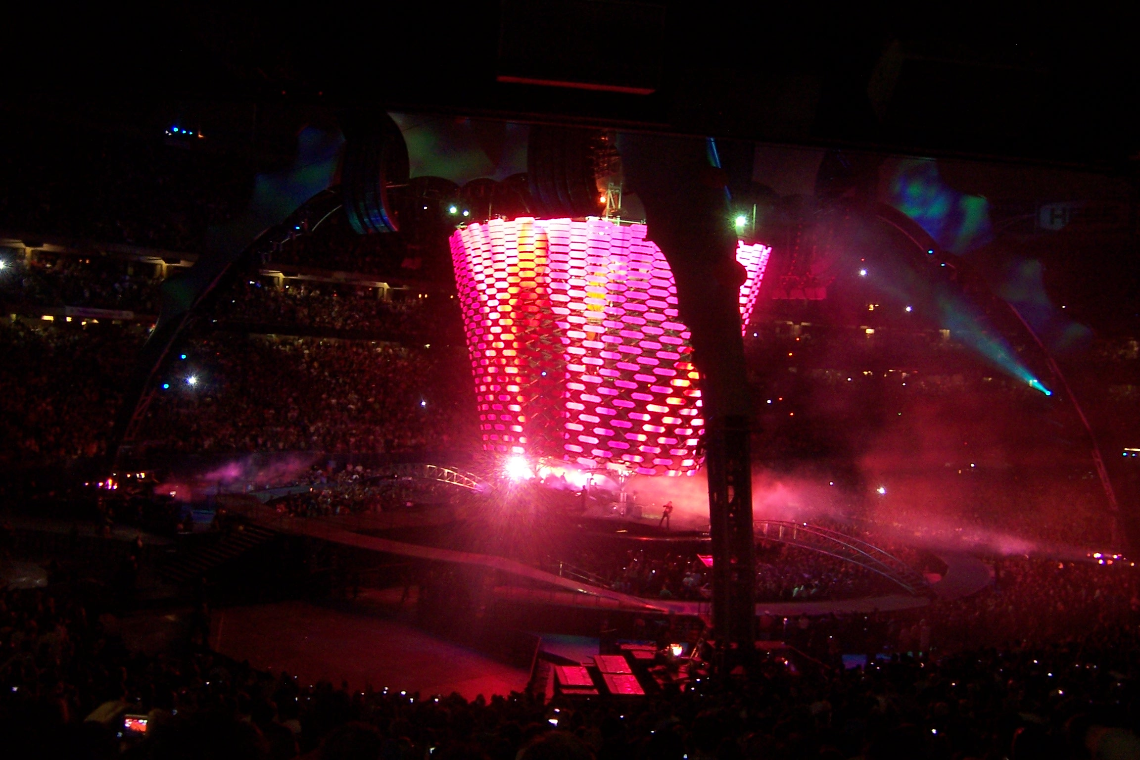 U2 performing "The Unforgettable Fire" at Giants Stadium in New Jersey on their U2 360 Tour